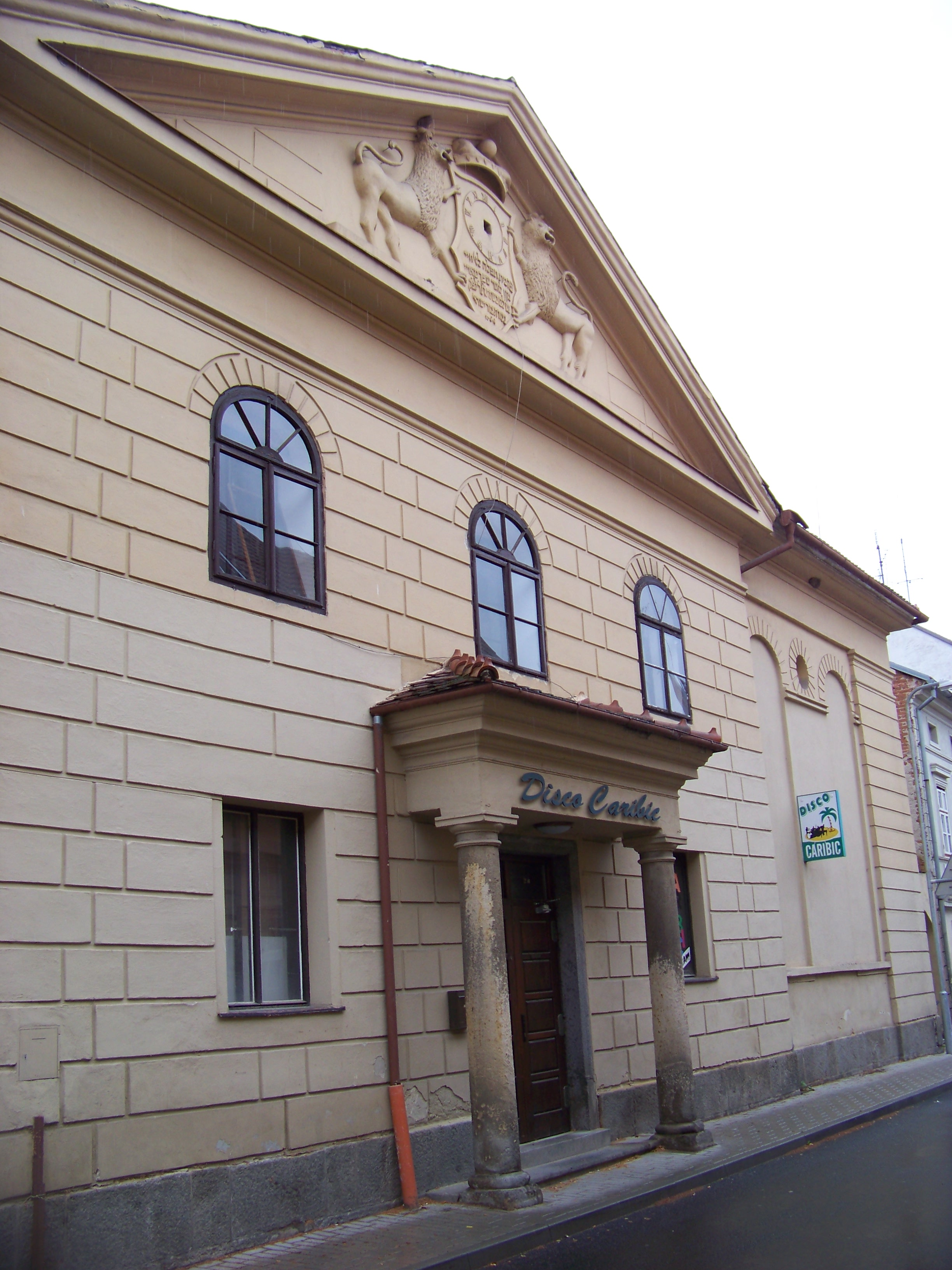 Volyně, Strakonice District, South Bohemian Region, Czech Republic. Žižkova 250, a synagogue. - Google Maps - Google Earth